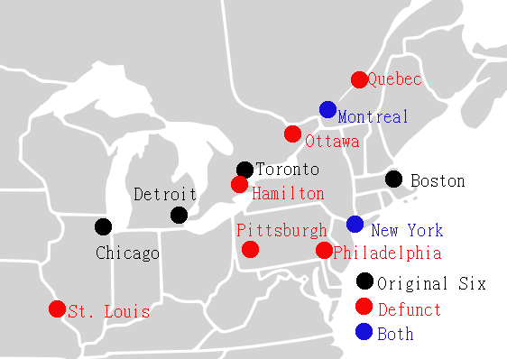 Cities that hosted NHL teams prior to the 1967 NHL expansion. Black indicates the city hosted an Original Six team and red indicates the city hosted a defunct team. Montreal and New York hosted both Original Six teams and defunct teams.